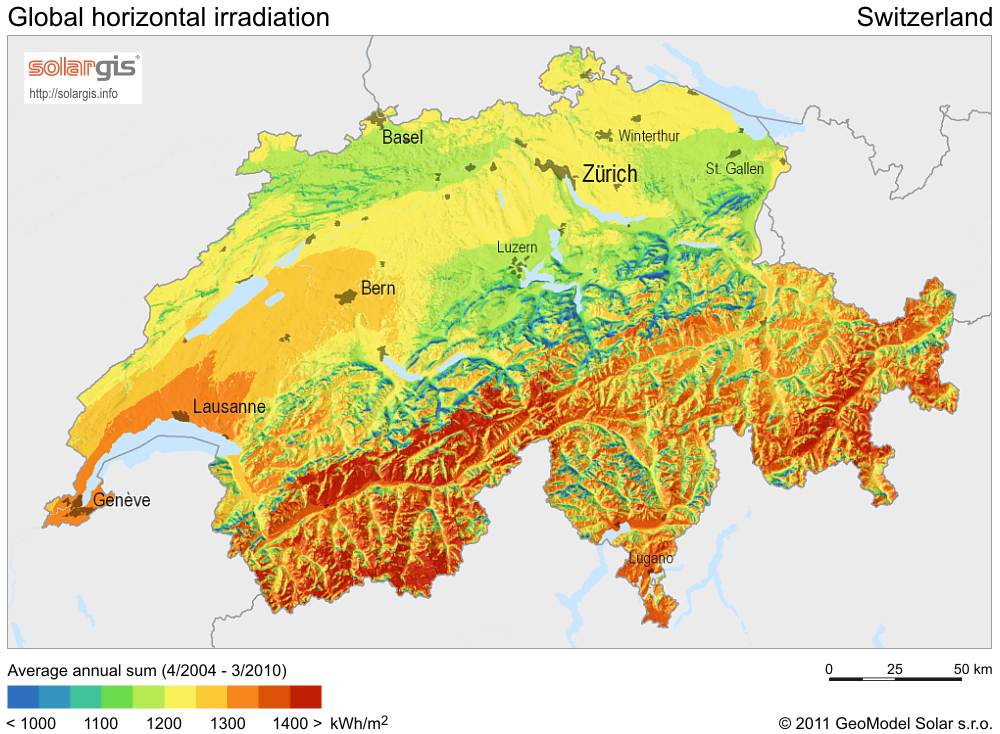 Solar Radiation Map: Global Horizontal Irradiation Map of Switzerland, SolarGIS 2011